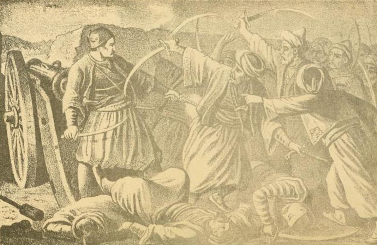 Junastvo Rajica